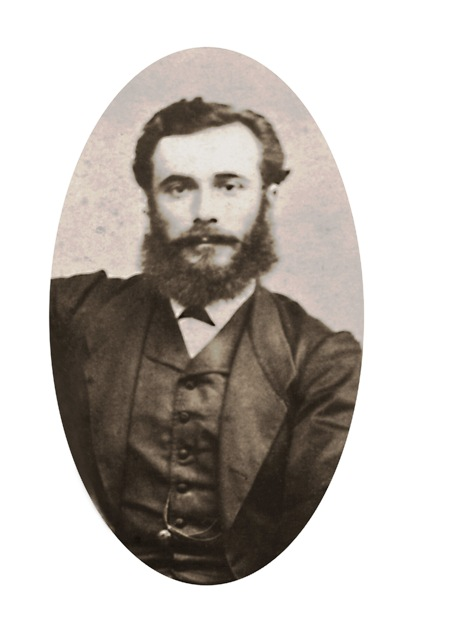 Bulgarian photographer Dimitar Kavra, self portrait